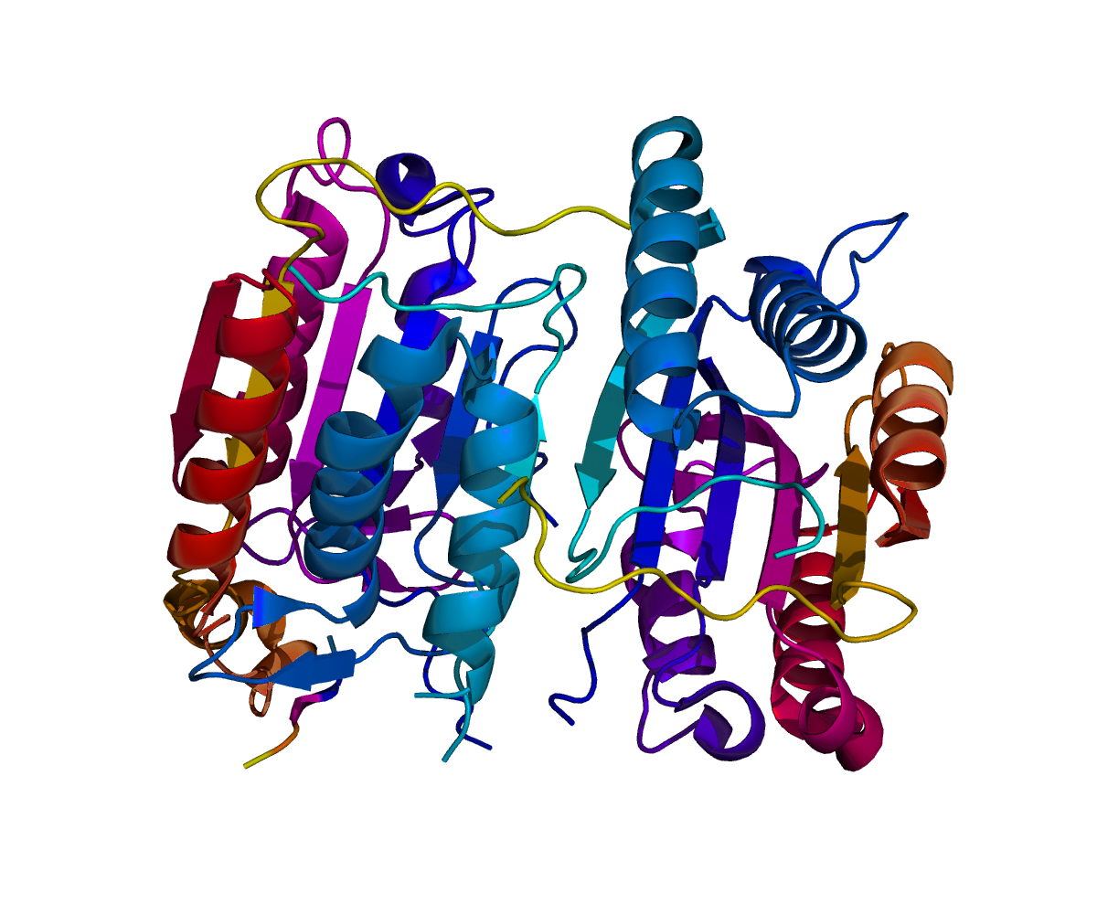 c-FLIP protein reconstruction